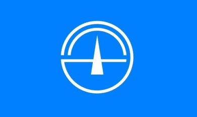 Flag of Iitate Fukushima